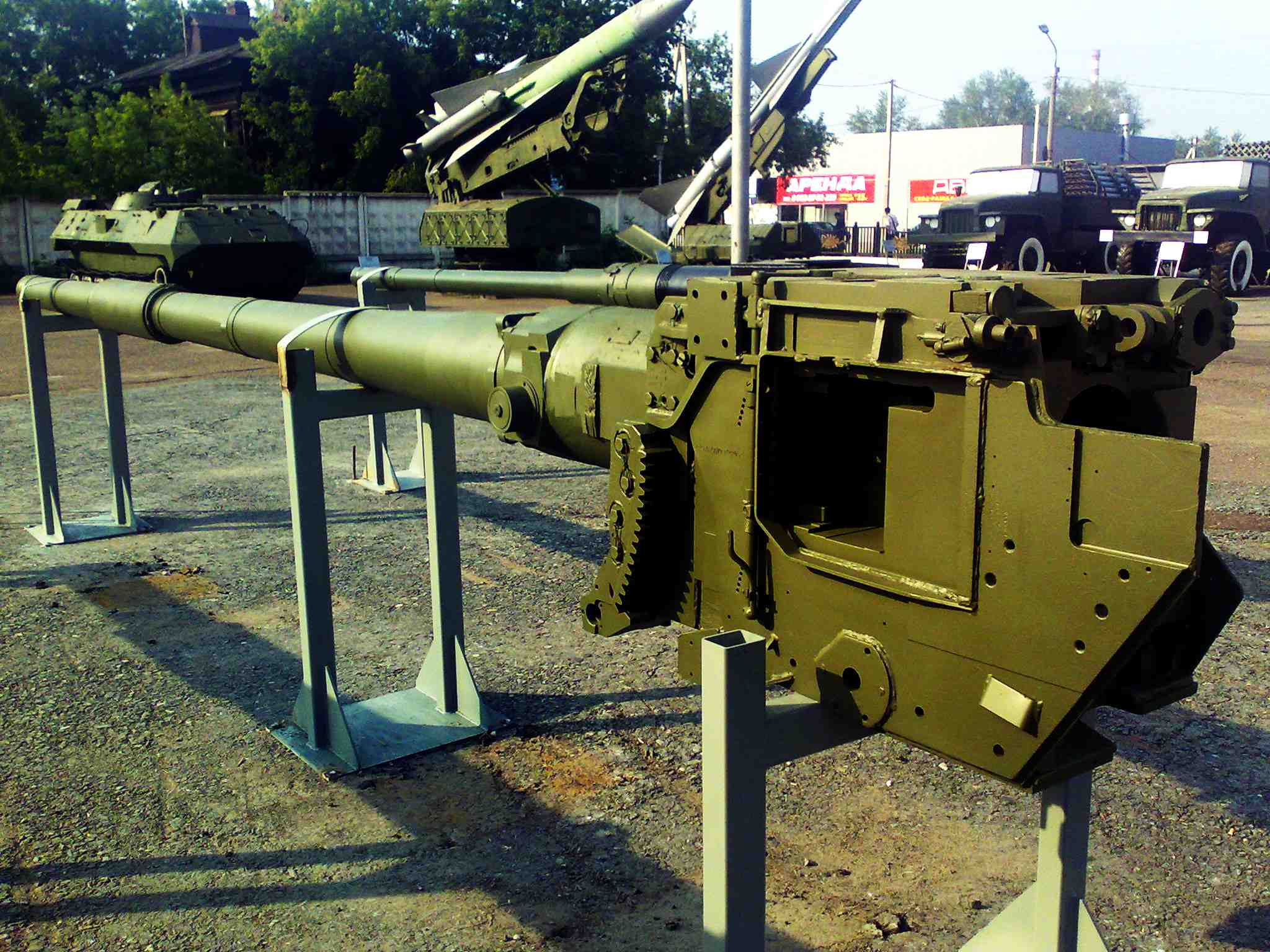 125-mm 2A46M1 tank gun. Motovilikha Plants museum in Perm. Russia.